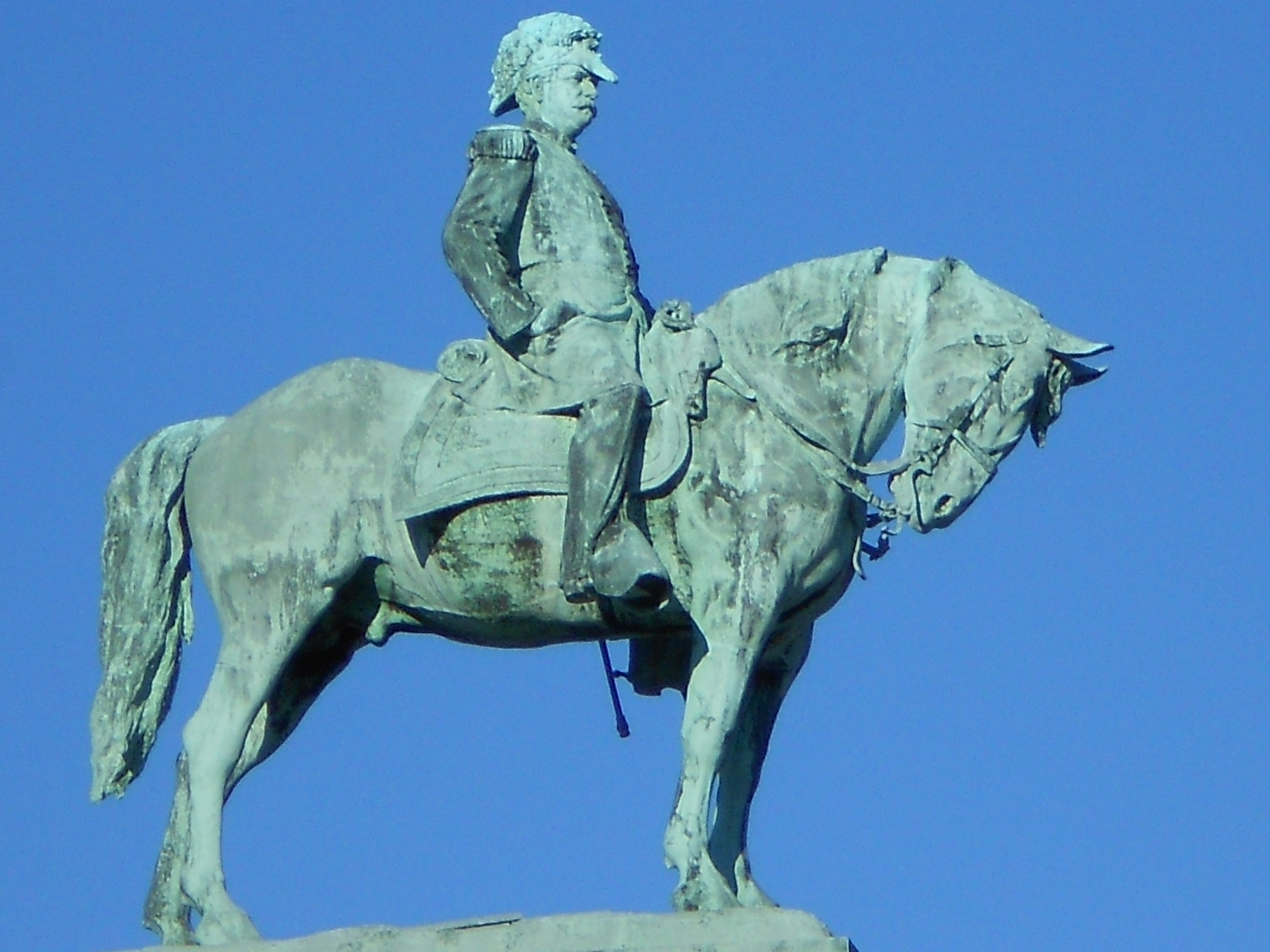 Statue of Major General Winfield Scott Hancock, of Montgomery County, Pennsylvania, Union Civil War hero and later presidential candidate. Sculptor John Quincy Adams Ward (1830-1910). Statue located on the Smith Memorial Arch just west of the Schuylkill River in Philadelphia, Pennsylvania.